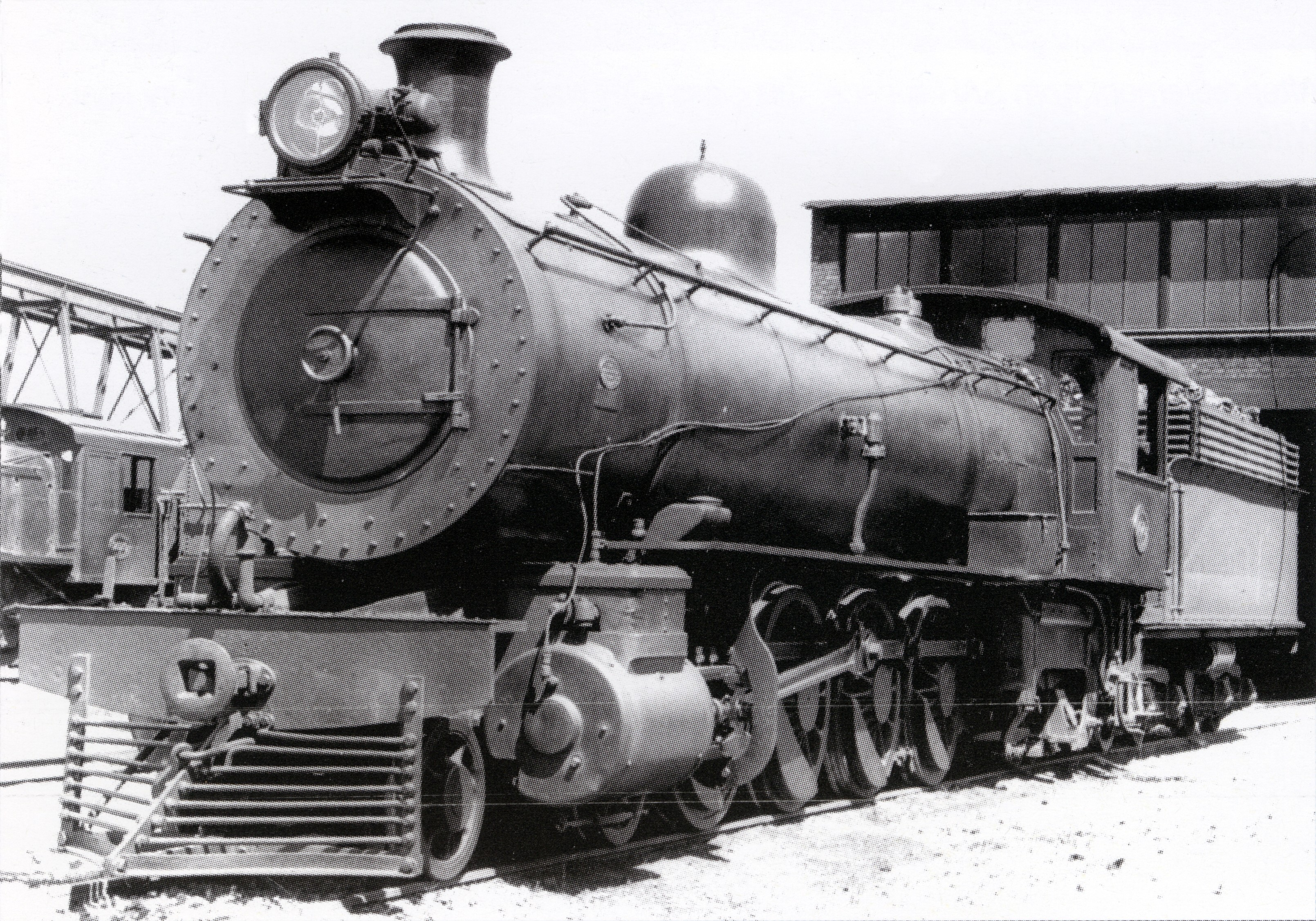 South African Railways Class 4 4-8-2 no. 1478, ex Cape Government Railways Mountain no. 851